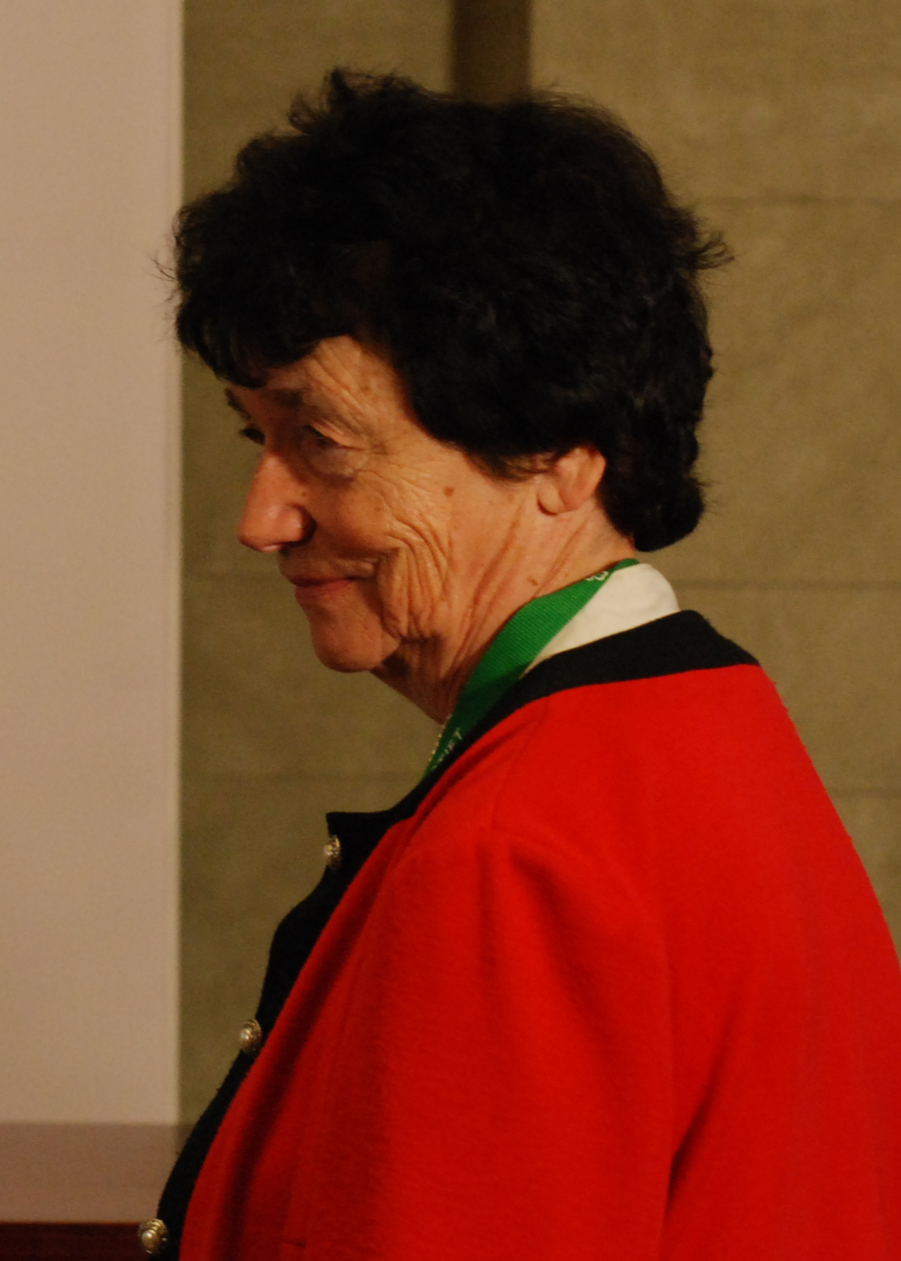 Announcement of the 30th Right Livelihood Award 2009: Eva Selin Lindgren